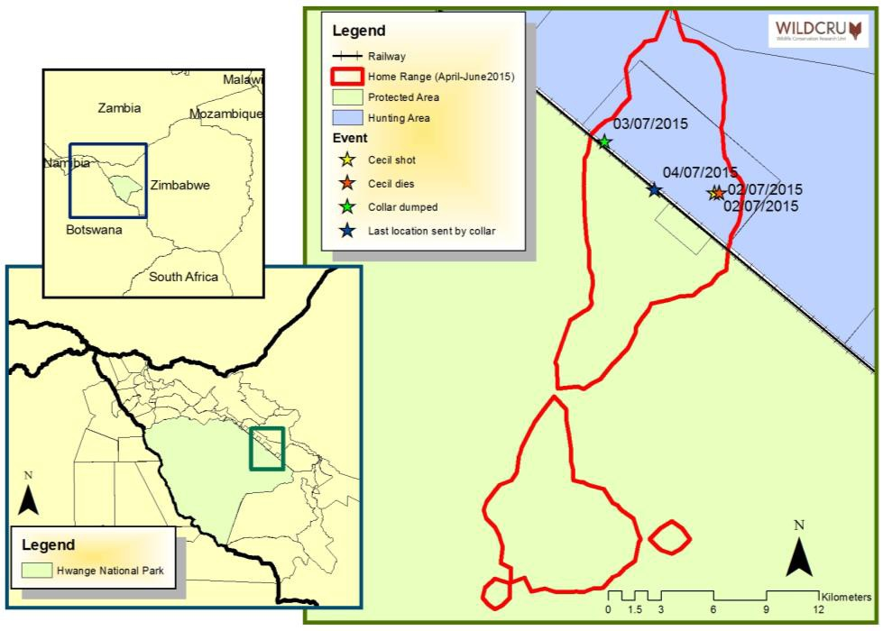 map of lion movement as captured by GPS collar